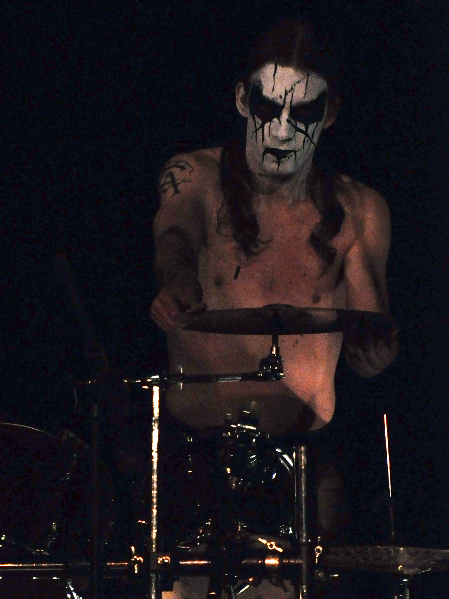 Carach Angren, a symphonic Black Metal group from the Netherlands, during their first concert in France, in Evreux, on the 21st of February 2009; Namtar (drums).